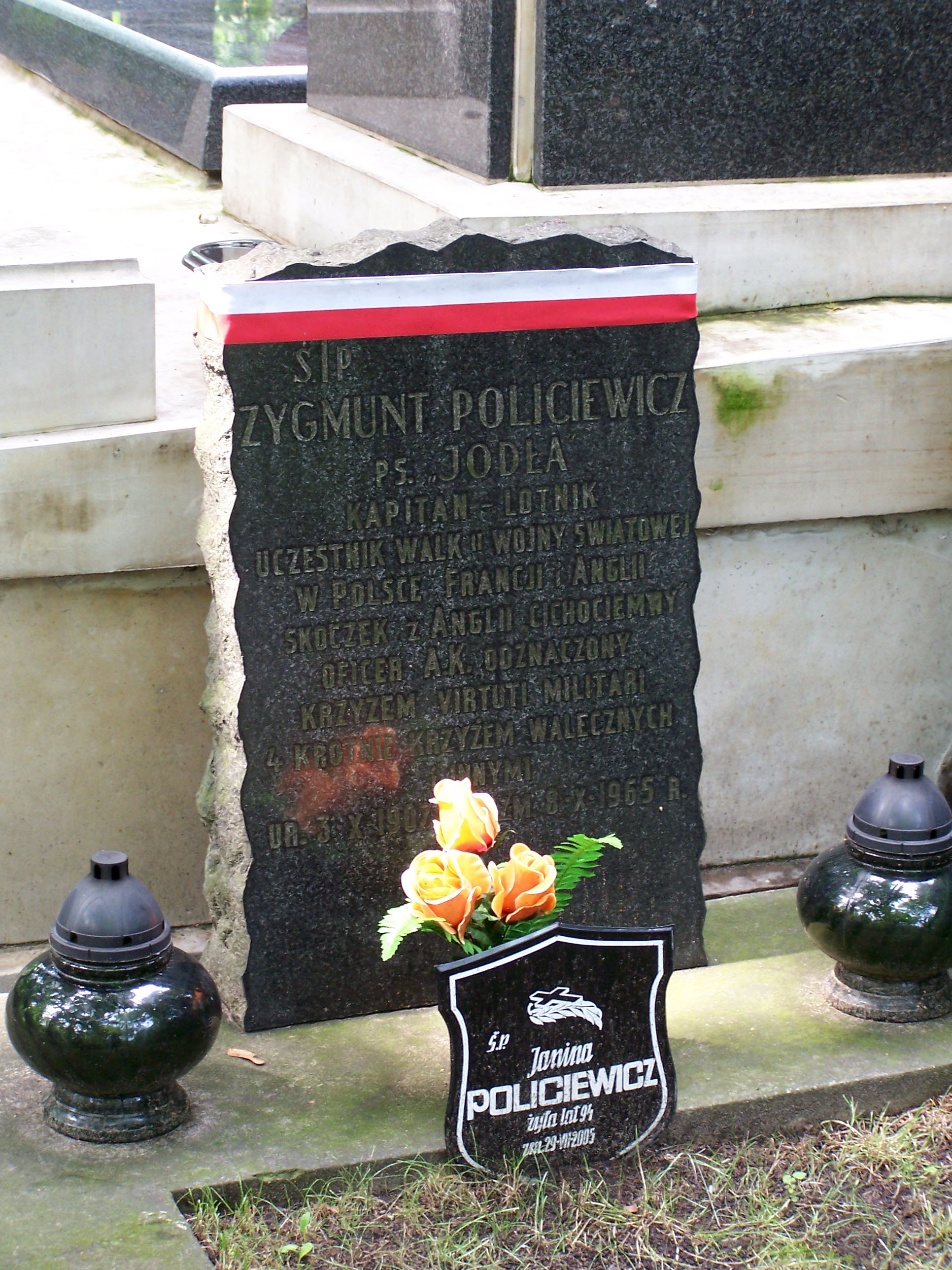 Grave of pilot and soldier Zygmunt Policiewicz at Powązki Cemetery in Warsaw, Poland